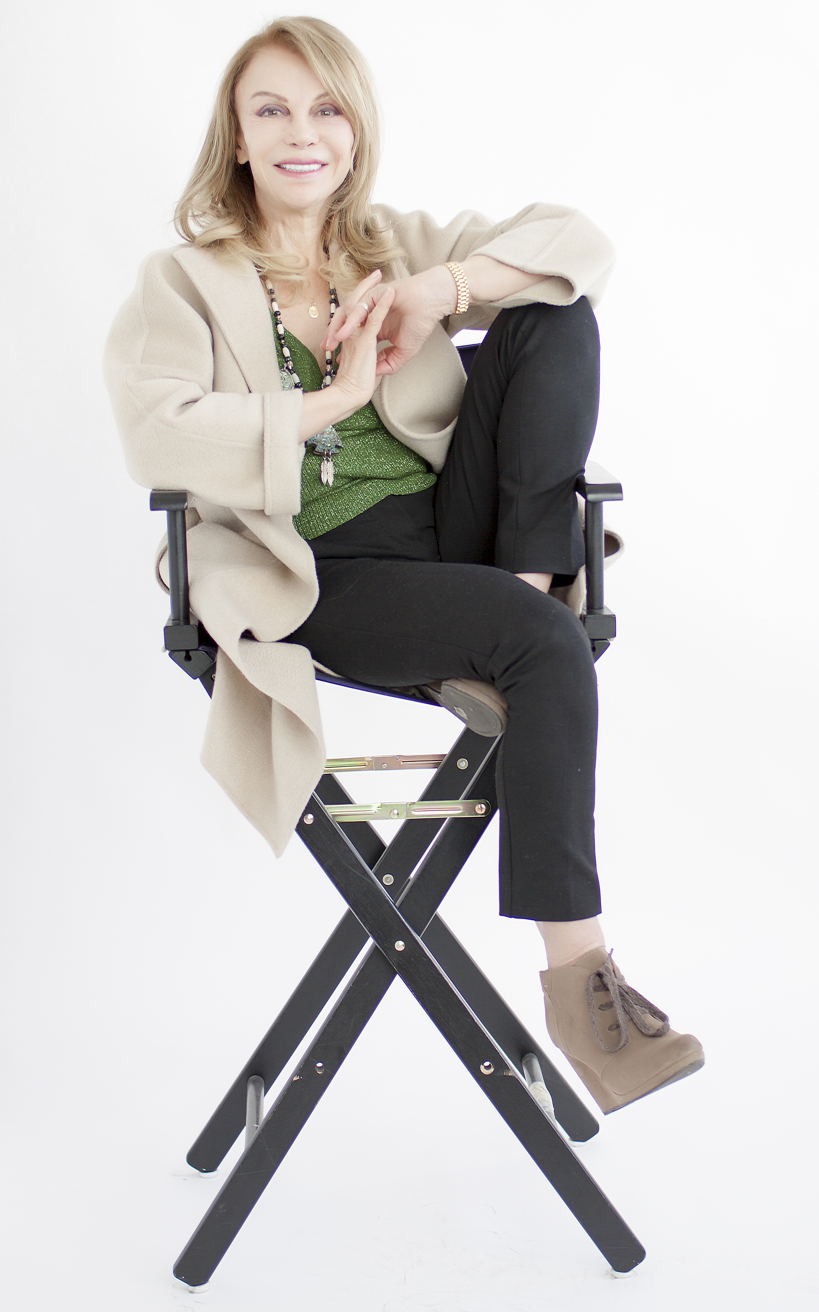 Graciela Chichilnisky worked extensively on the Kyoto Protocol, creating and designing the carbon market that became international law in 2005, and wrote the wording for the carbon market into the Kyoto Protocol at the COP in Kyoto in December 1997